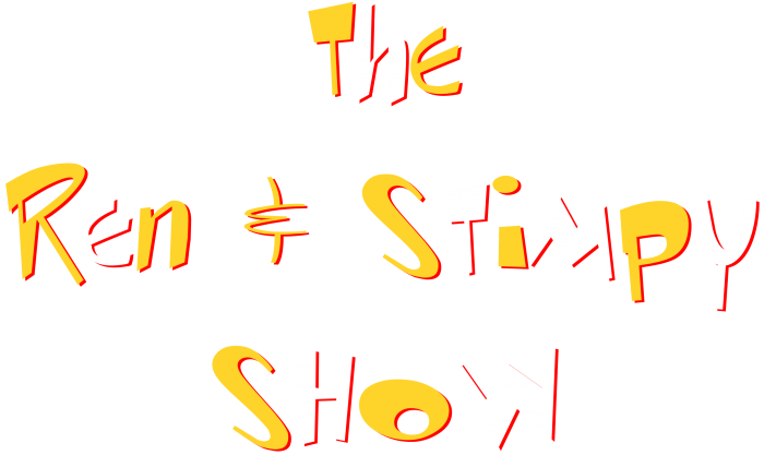 Logo for the animated TV series Ren & Stimpy.